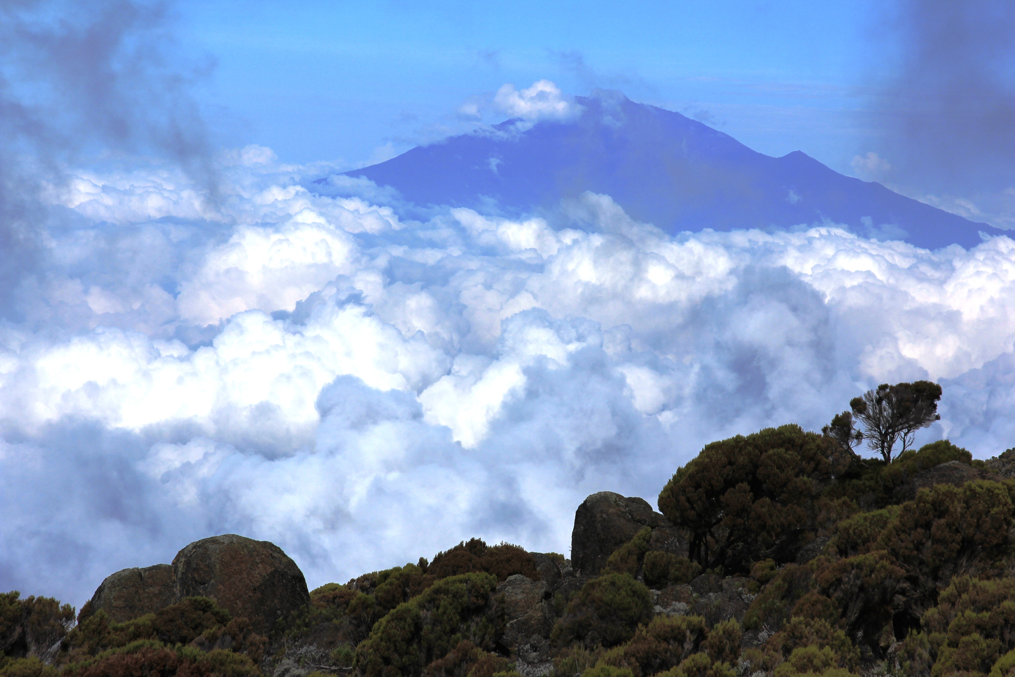 Mt. Meru from Karanga Camp, Kilimanjaro